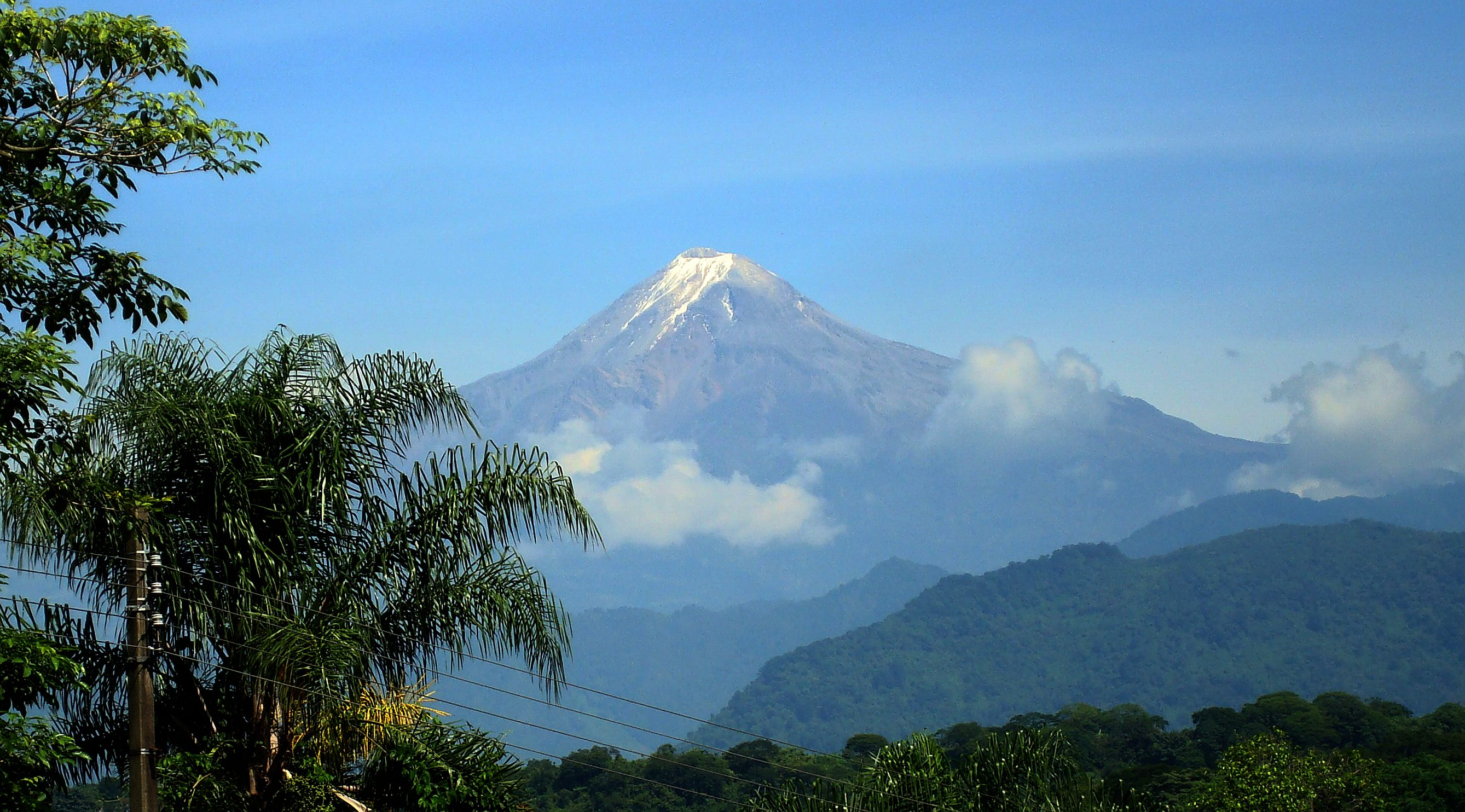 Picture of the Pico de Orizaba, looking northwest from Fortín de las Flores, Veracruz